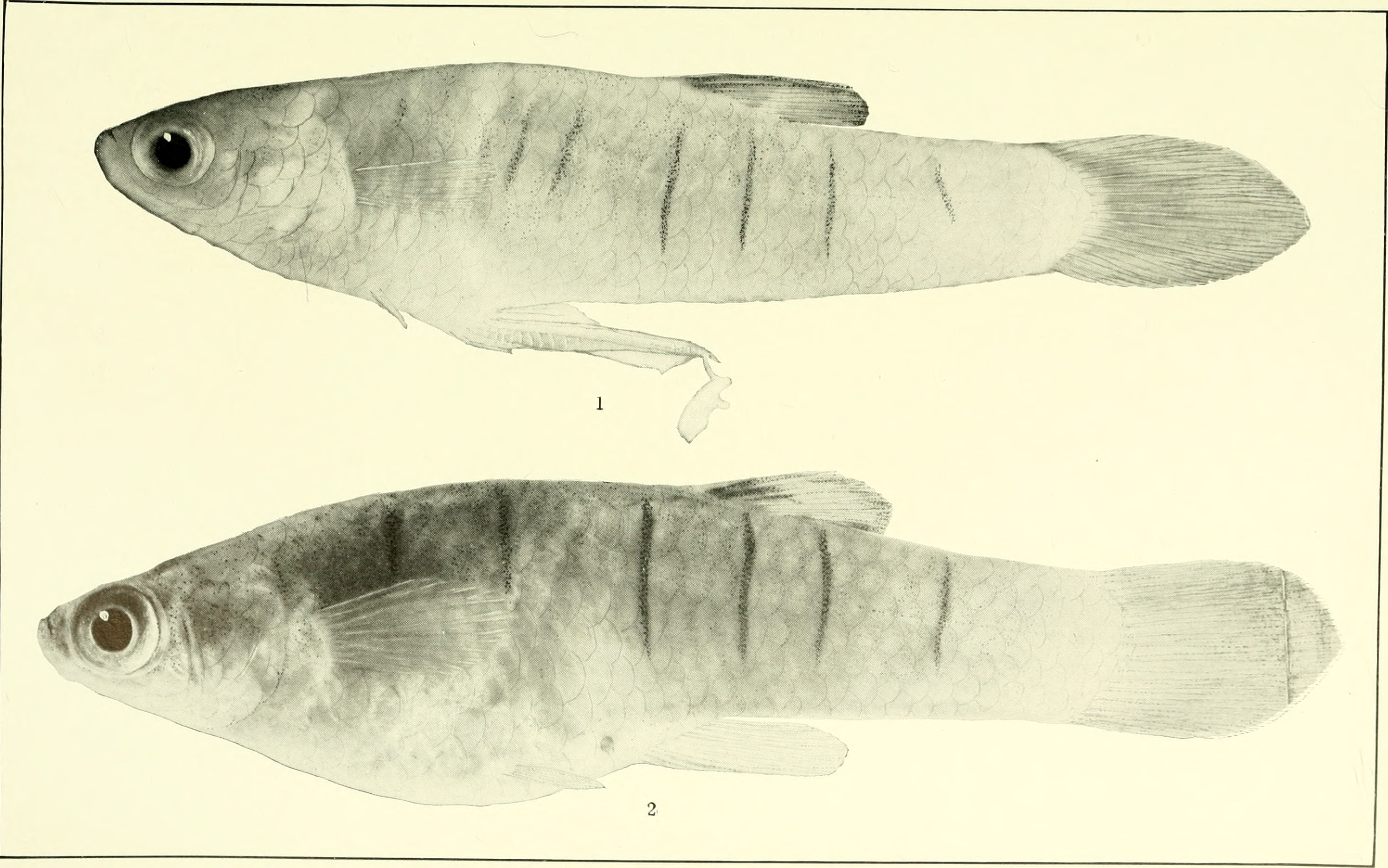 Title: Annals of the Carnegie Museum Year: 1916 (1910s) Authors: Carnegie Museum; Carnegie Museum of Natural History Subjects: Carnegie Museum; Carnegie Museum of Natural History; Natural history Publisher: [Pittsburgh : Published by authority of the Board of Trustees of the Carnegie Institute] Text Appearing Before Image: ' Text Appearing After Image: '